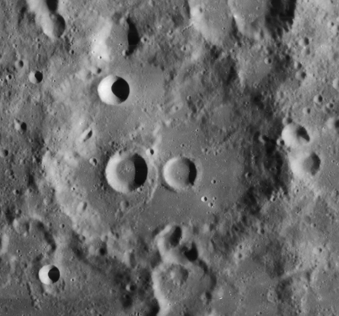 Sacrobosco, on the moon.